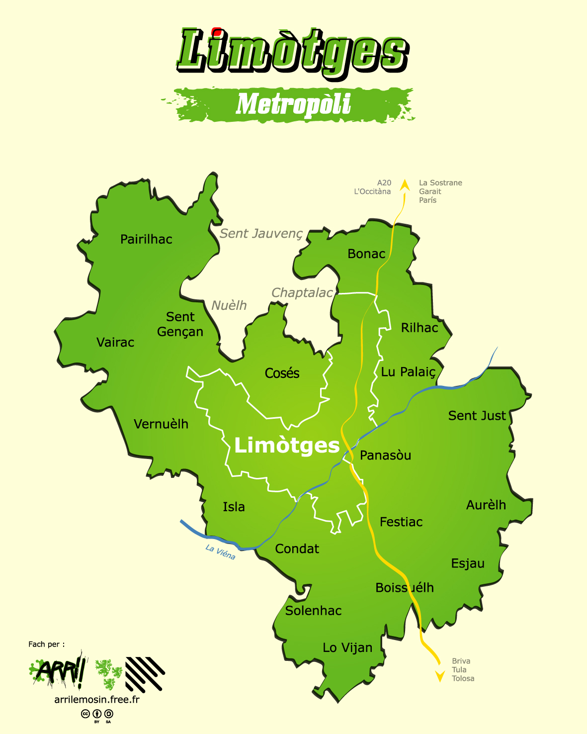 Limoges Agglo's map. Occitan names.